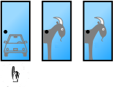 Self made, modification to PD Image:Monty-CurlyPicksCar.svg